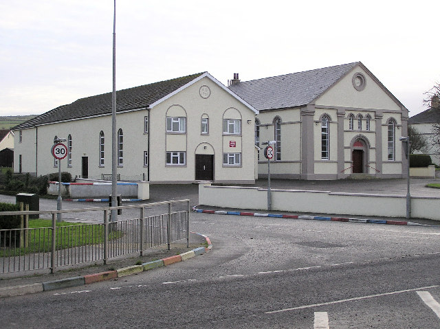 Magheramason Presbyterian Church (right) and church hall. These very neat looking buildings at Magheramason are on the main road between Strabane and Londonderry. The kerbstones painted red, white and blue are a common sight in loyalist areas of Northern Ireland.